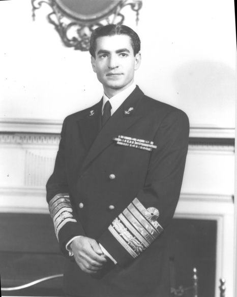 Formal portrait of a young Shah of Iran in full military dress. From the Harry S. Truman Library & Museum.